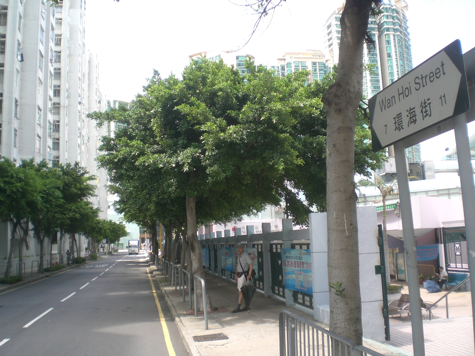 紅磡 環海街